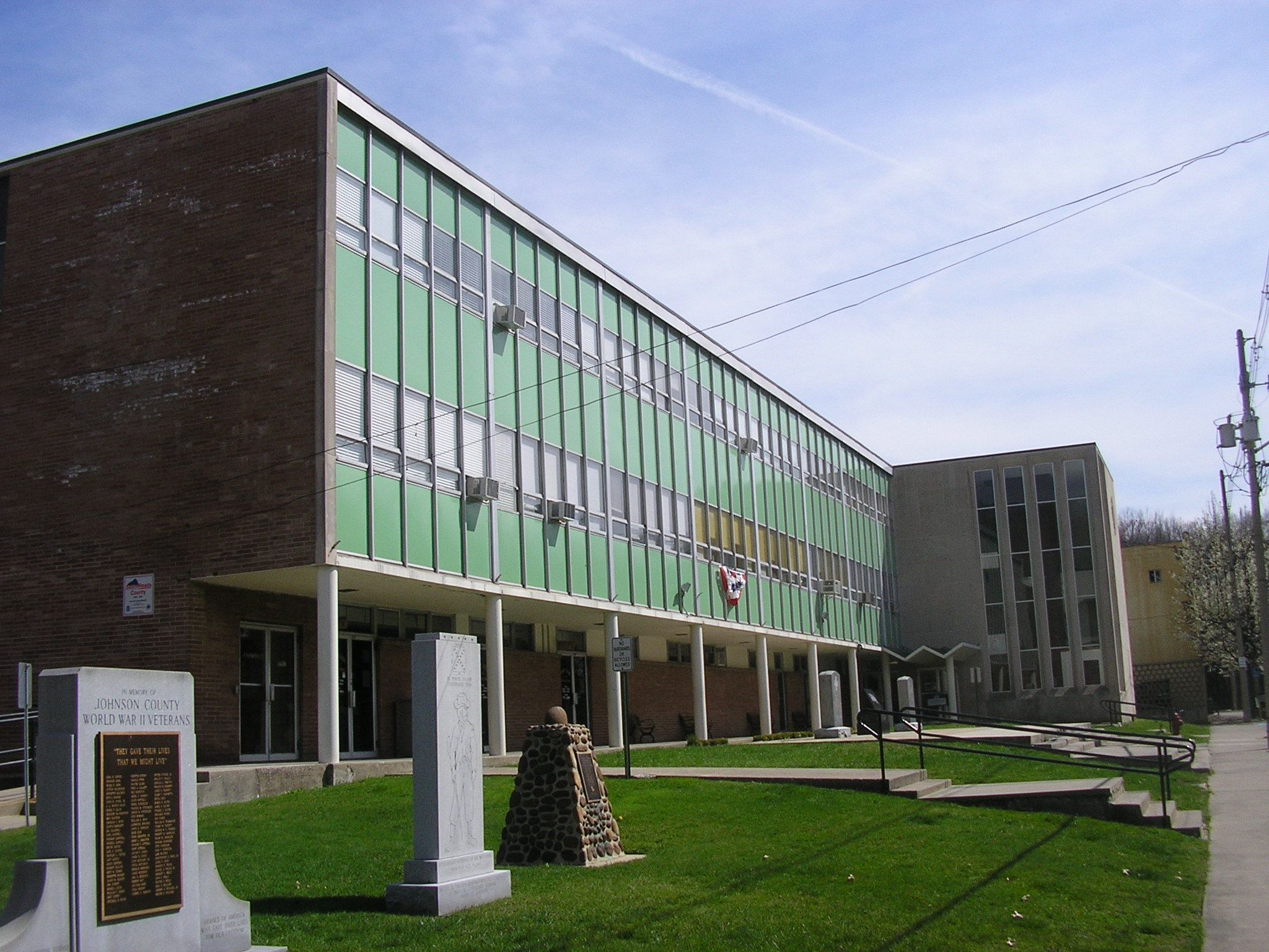 Photo taken by Bedford 9 May 2008 The former Johnson County Courthouse. It was replaced by the Johnson County Judicial Center in the late 2000's.[1]